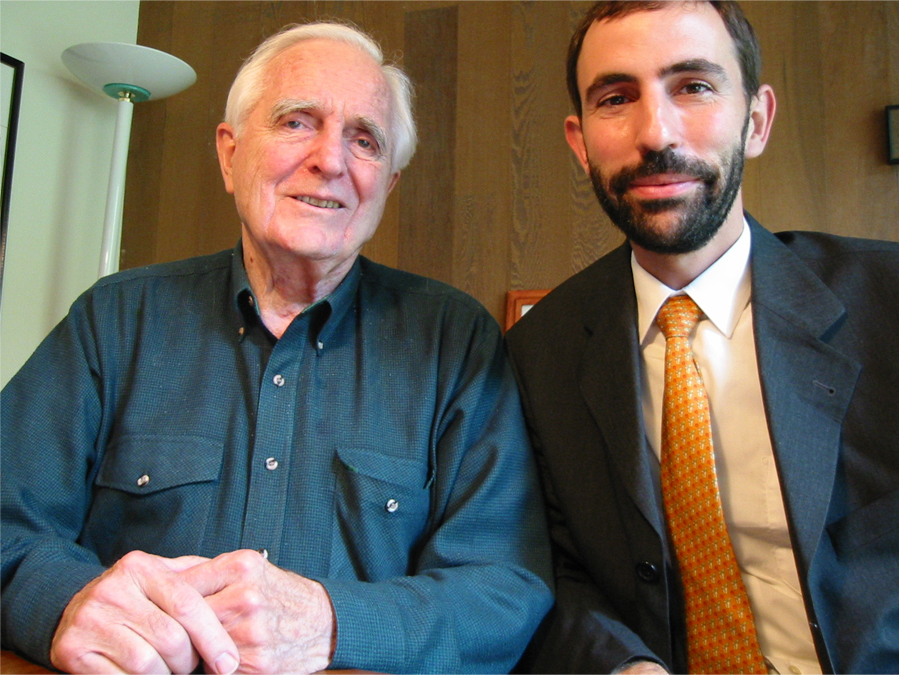 during his personal interview to record his voice at his home.